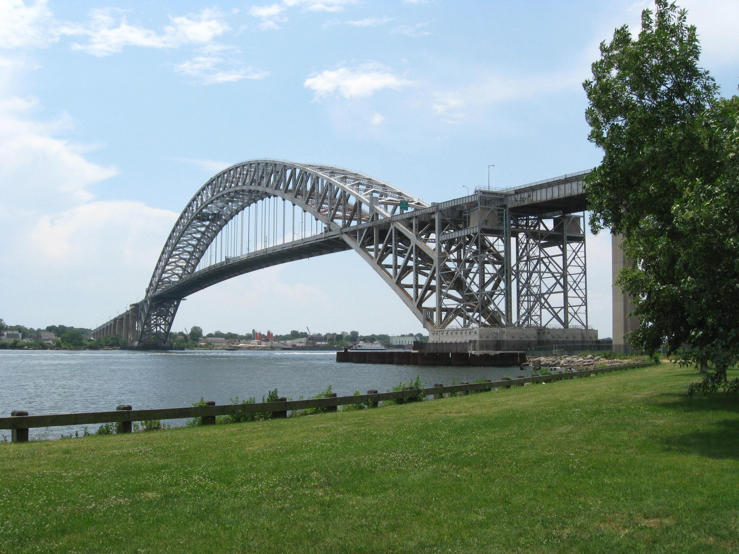 Looking southwest at Bayonne Bridge from Collins Park in Bayonne on a mostly cloudy afternoon